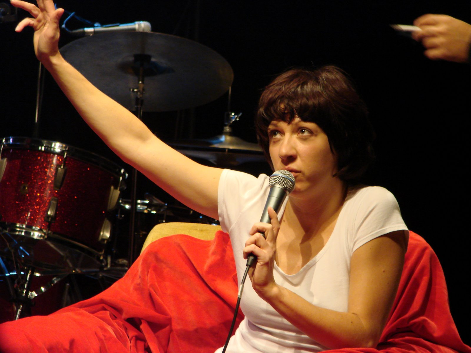 Janja Majzelj in 2010